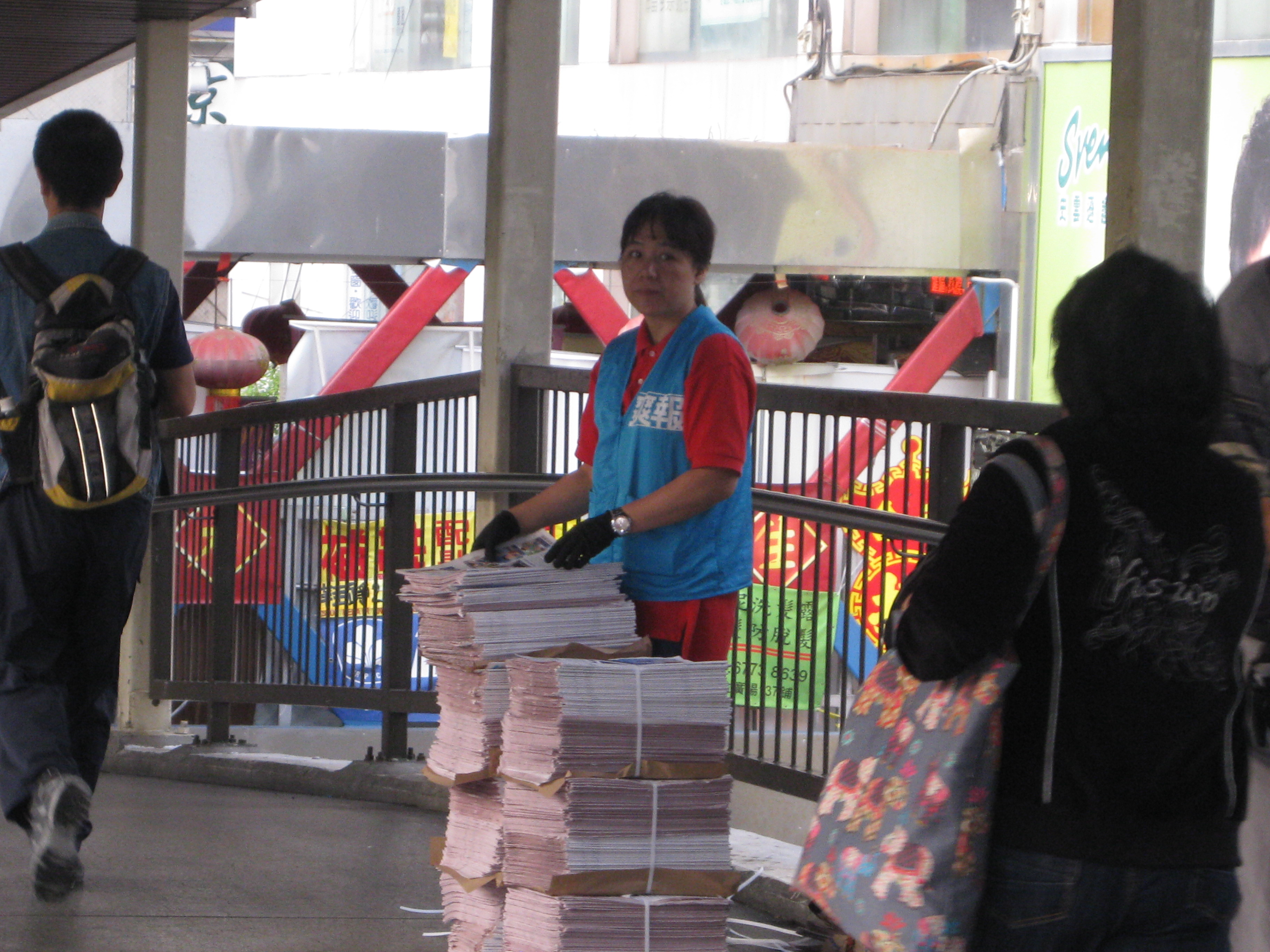 Distribution of Sharp Daily in Tsuen Wan